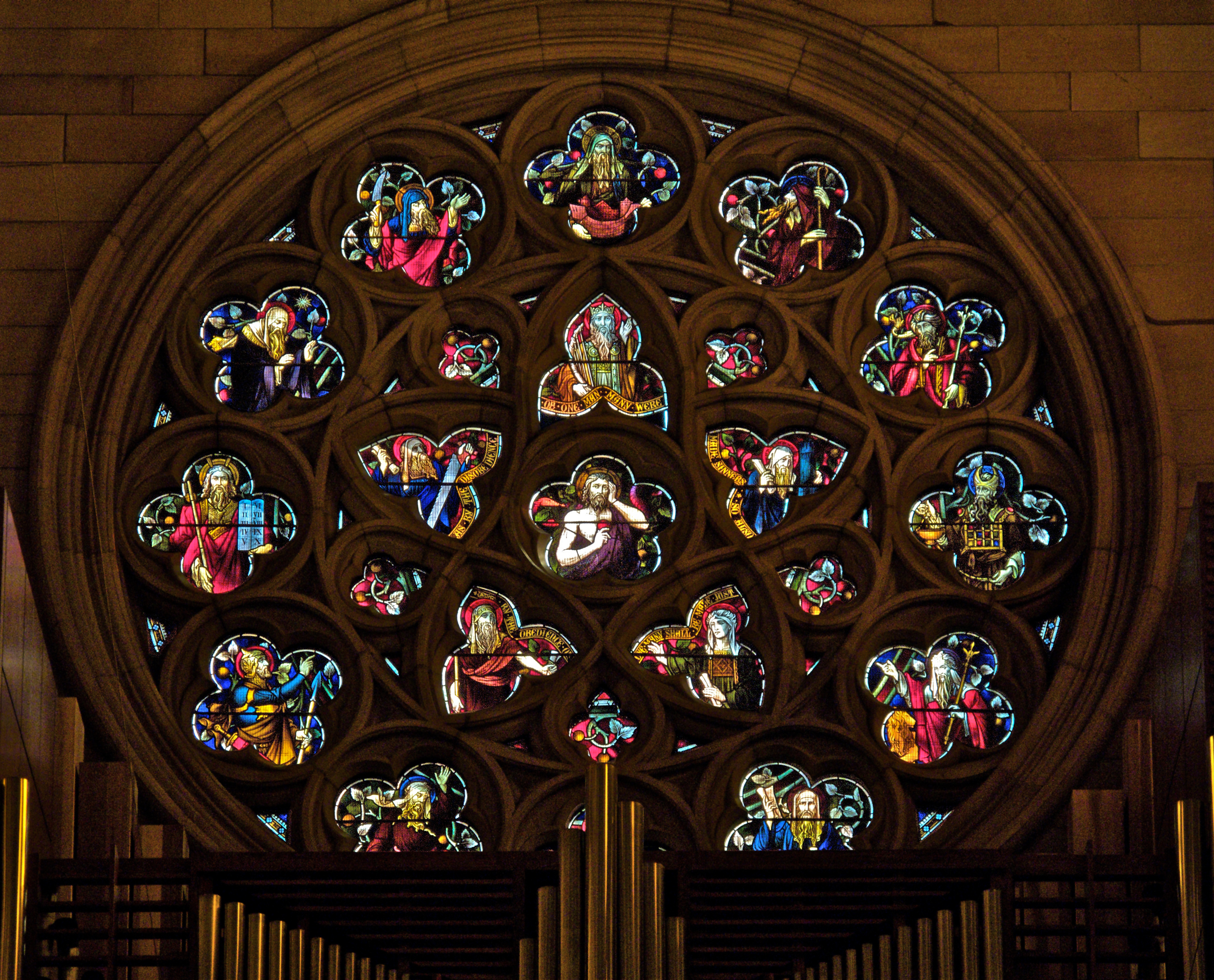 Stained glass window in St Mary's Cathedral, Sydney.